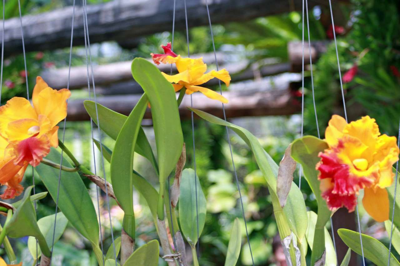 Nong Nooch botanical garden, orchid garden, Thailand